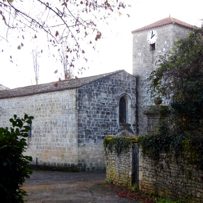 The church at Saint-Maixent-de-Beugné, Deux-Sèvres.